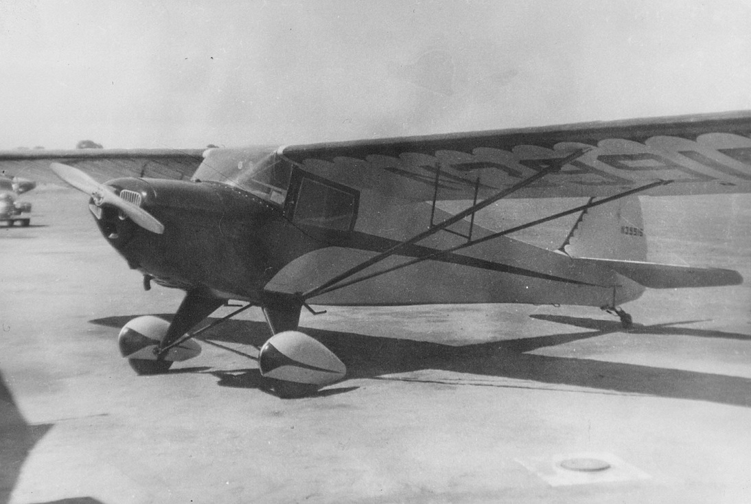 Photograph of a 1946 Taylorcraft BC-12-D with custom painted fabric taken at Phoenix Field, California in 1950.